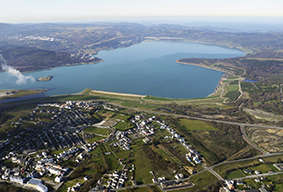 Lake and village of As Pontes